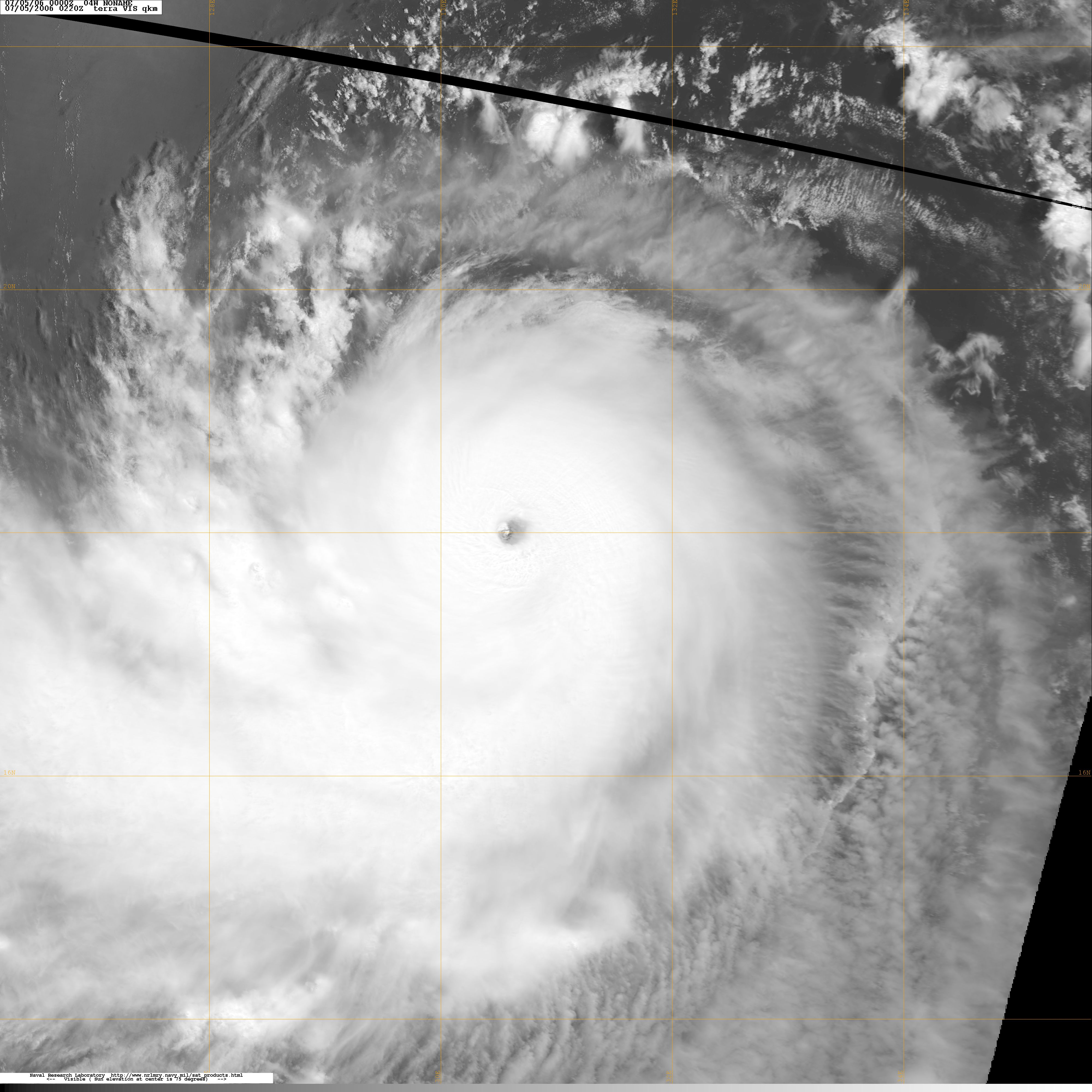 Super Typhoon Ewiniar at peak intensity. From NRL, Here